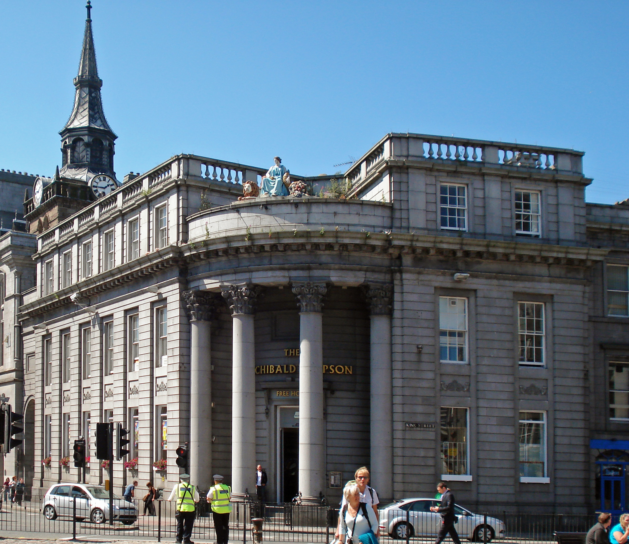 The old North of Scotland Bank on the corner of Castle Street and King Street by Archibald Simpson photo courtesy Jane Cartney